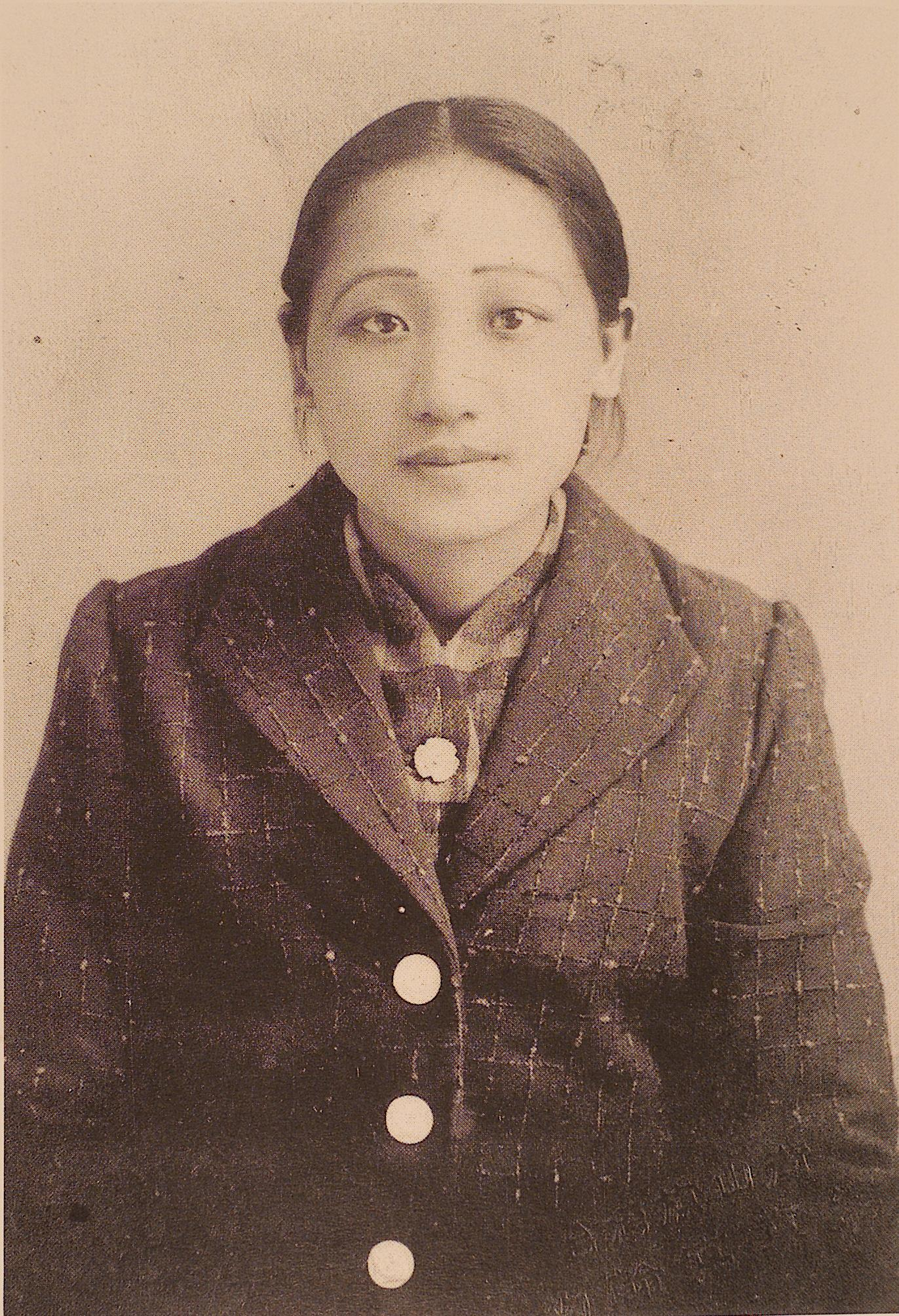 Chung Tai Mei 1940中文（台灣）: 鍾台妹, 1941年